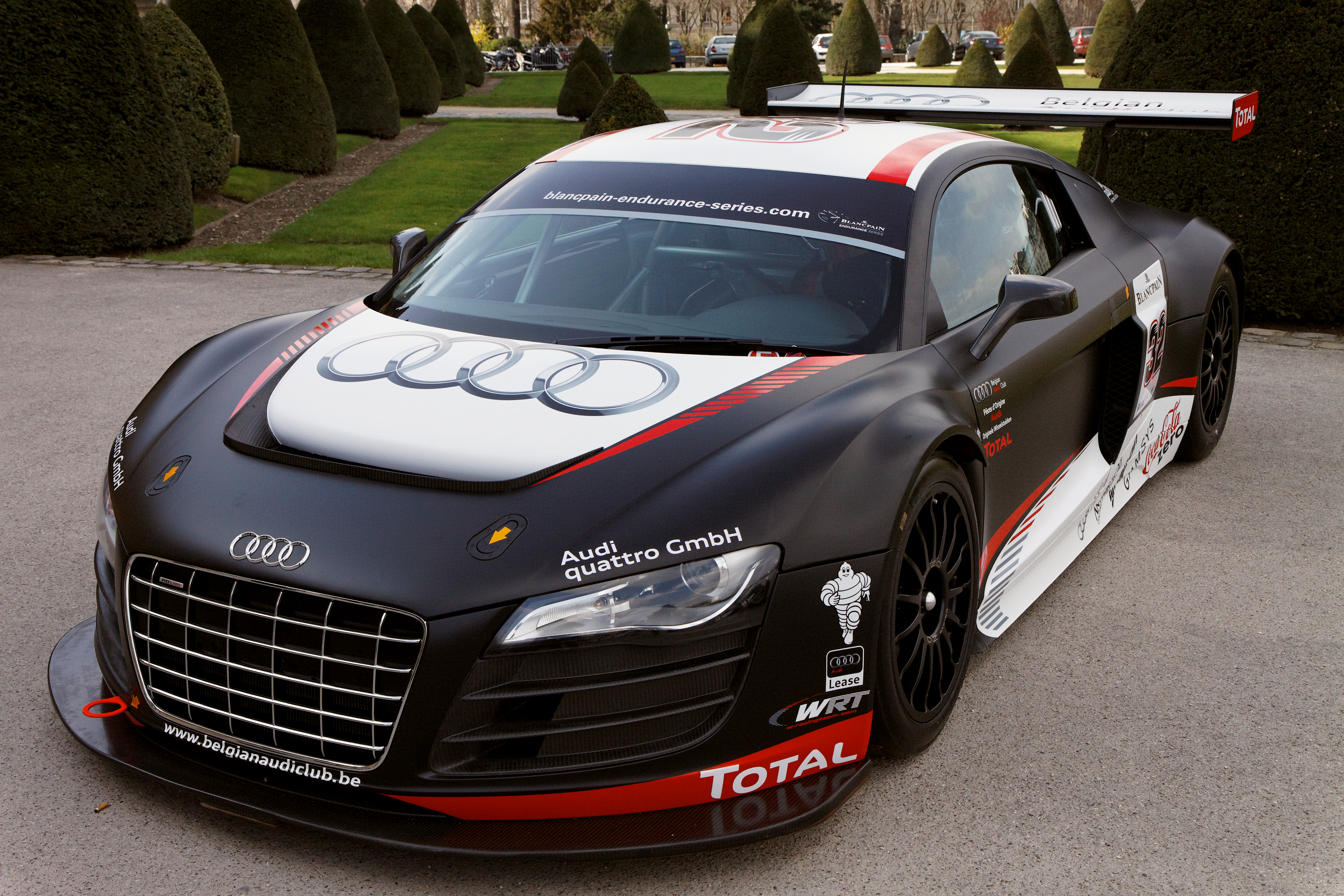 An Audi R8 LMS at the presentation of the Blancpain Endurance Series at Les Invalides in Paris, March 2011